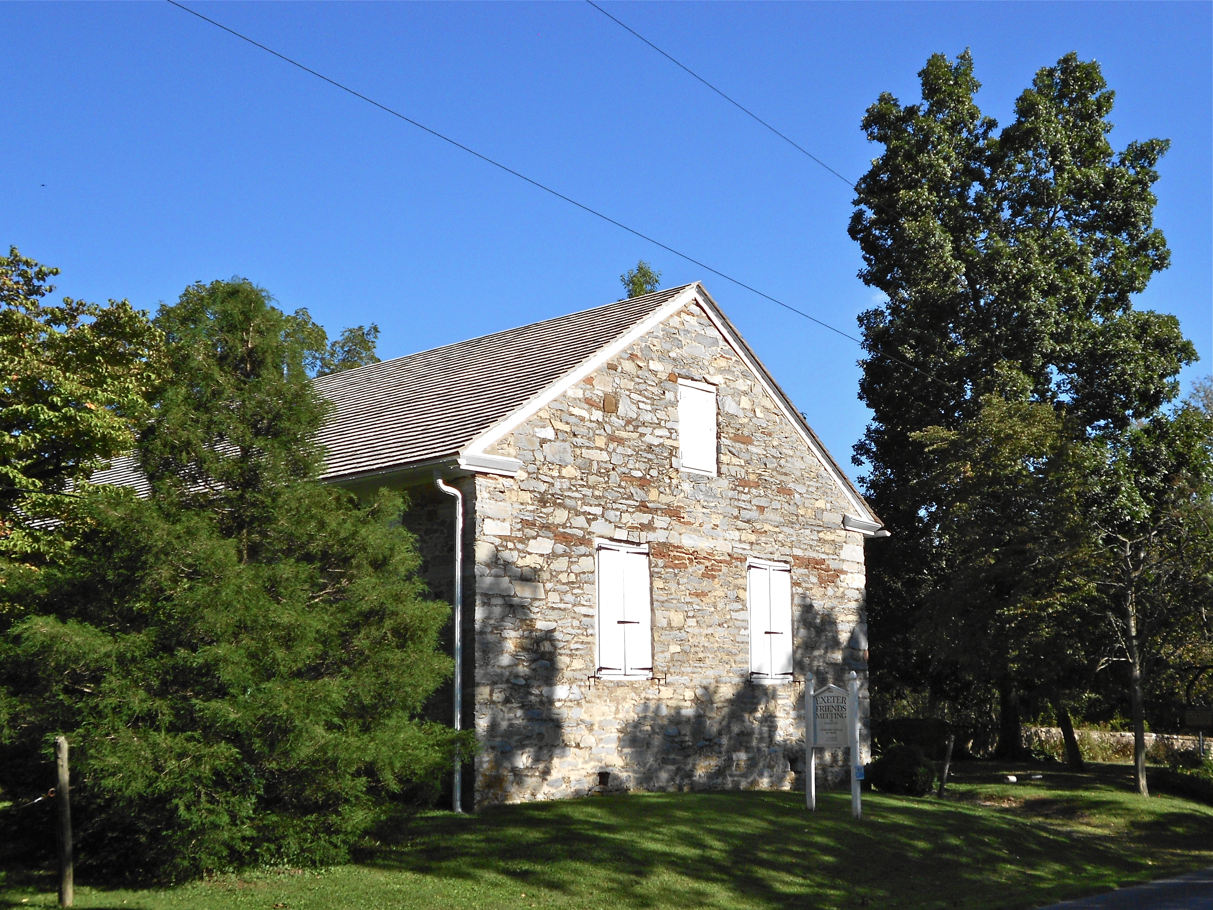 Exeter Friends Meeting, in Berks County, Pennsylvania, markered with a PHMC (Pennsylvania State) historical marker on May 7, 1979 . At Meetinghouse Road, .5 mile S of Pa. 562 & 2 mile W of Yellow House Associated with the ancestors of Daniel Boone and Abraham Lincoln